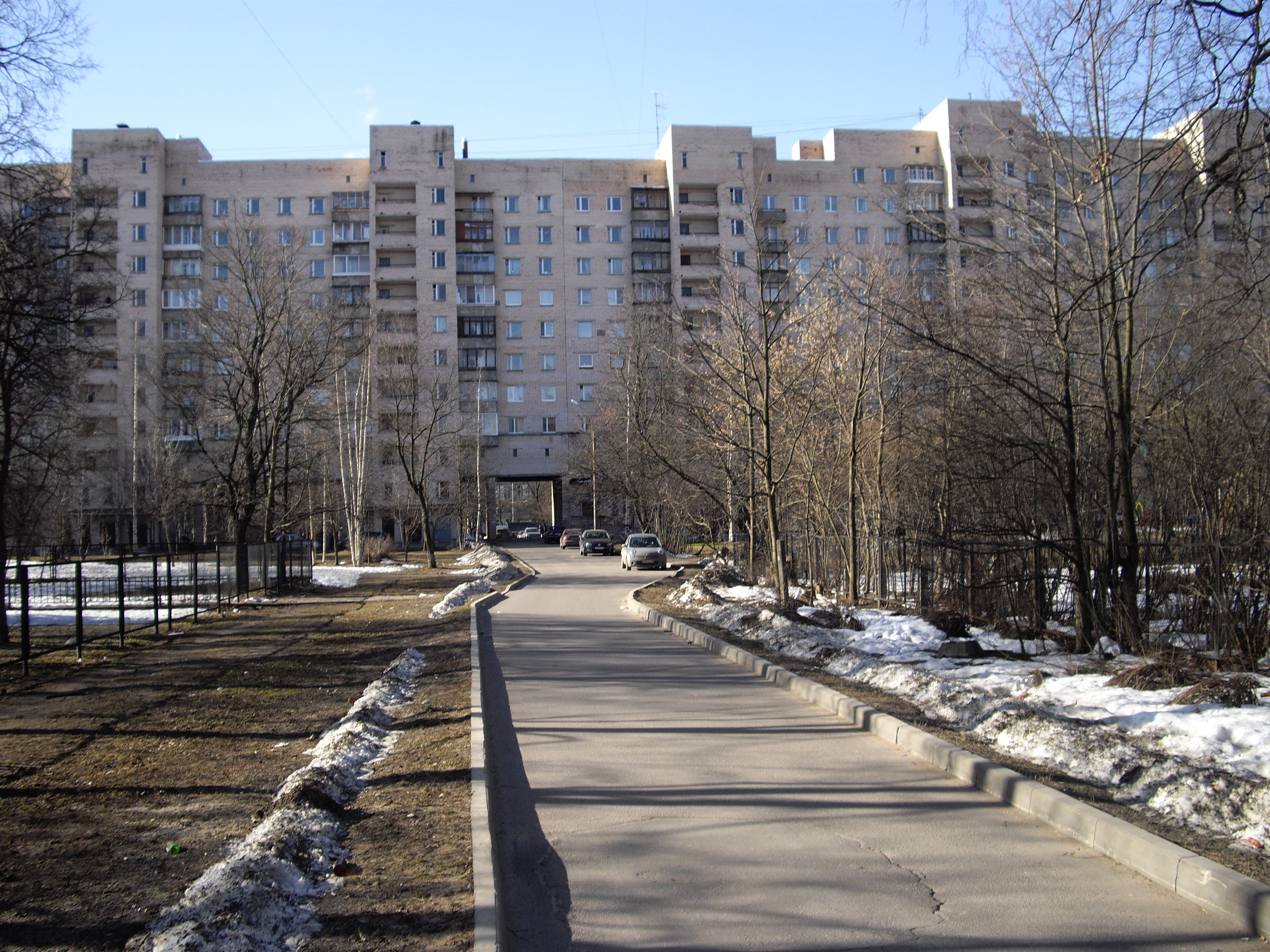 Startseva street in Saint Petersburg (Russia)